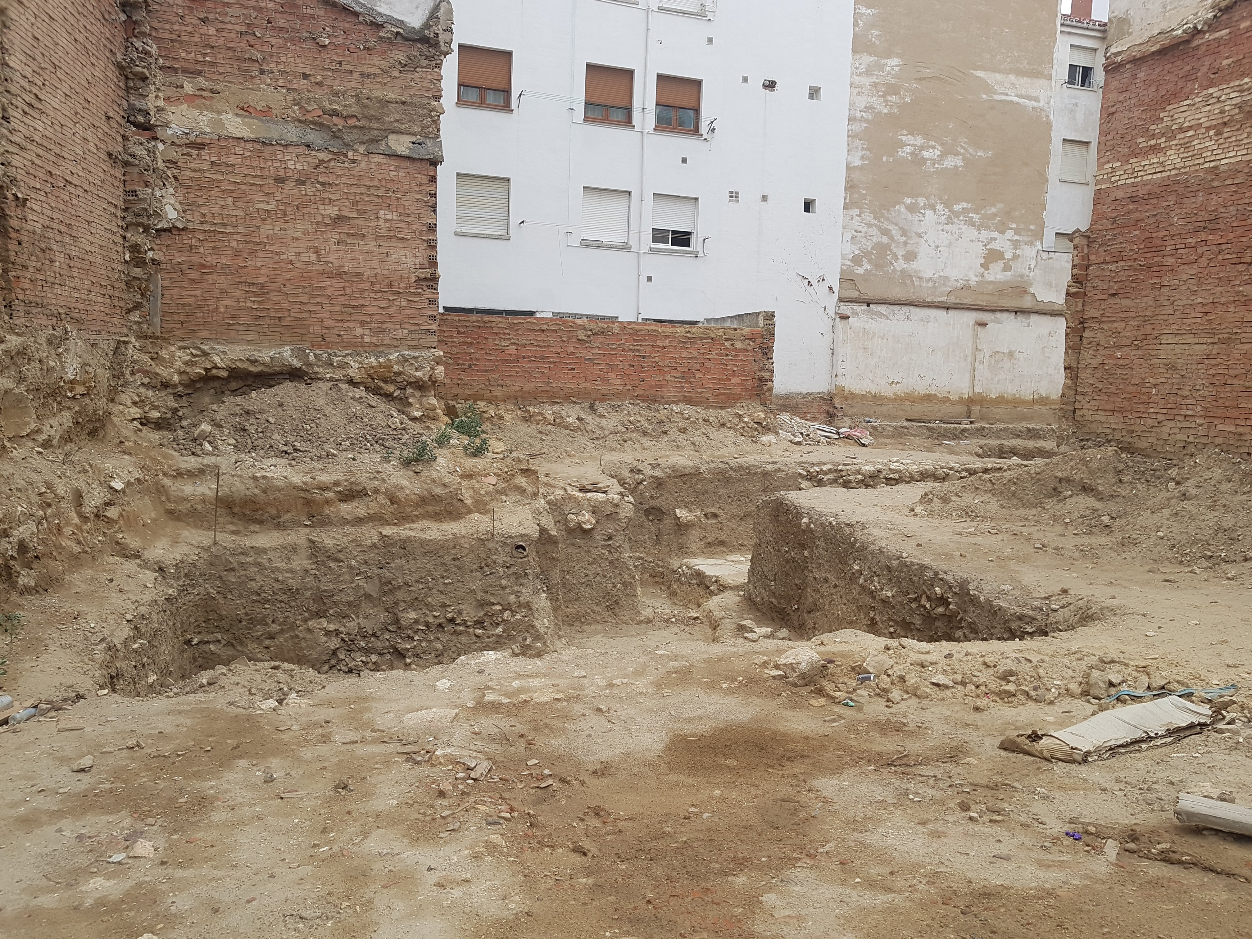 Archaeological excavations.Roman levels of Pallantia at Canónigo San Martín Street, Num 7 (Palencia, Castile and León). Аҧсшәа: Excavaciones arqueológicas en la Pallantia Romana. Calle Canónigo San Martín Num 7 (Palencia, Castilla y León).